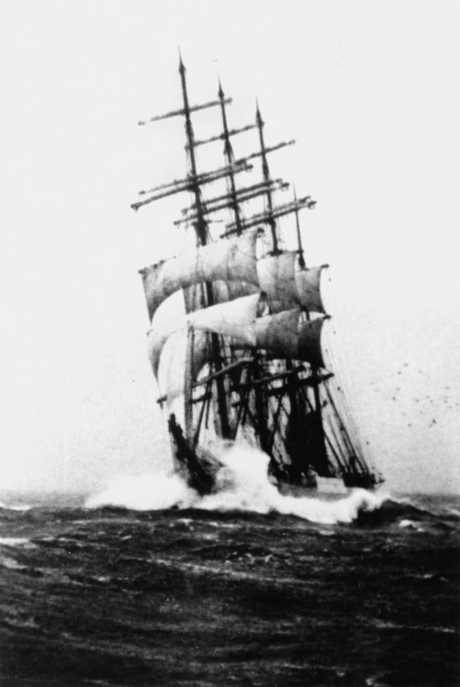 Pamir (ship). In a gale off Cape Flattery, Vancouver - Wellington. ( Description supplied with photograph.).